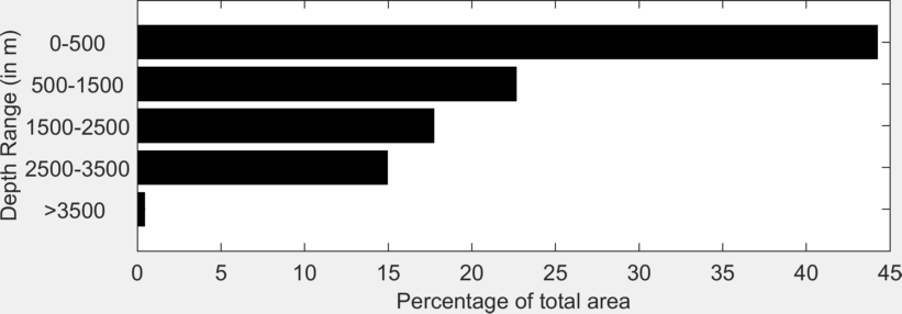 From “General Circulation and Principal Wave modes in Andaman Sea from Observations”